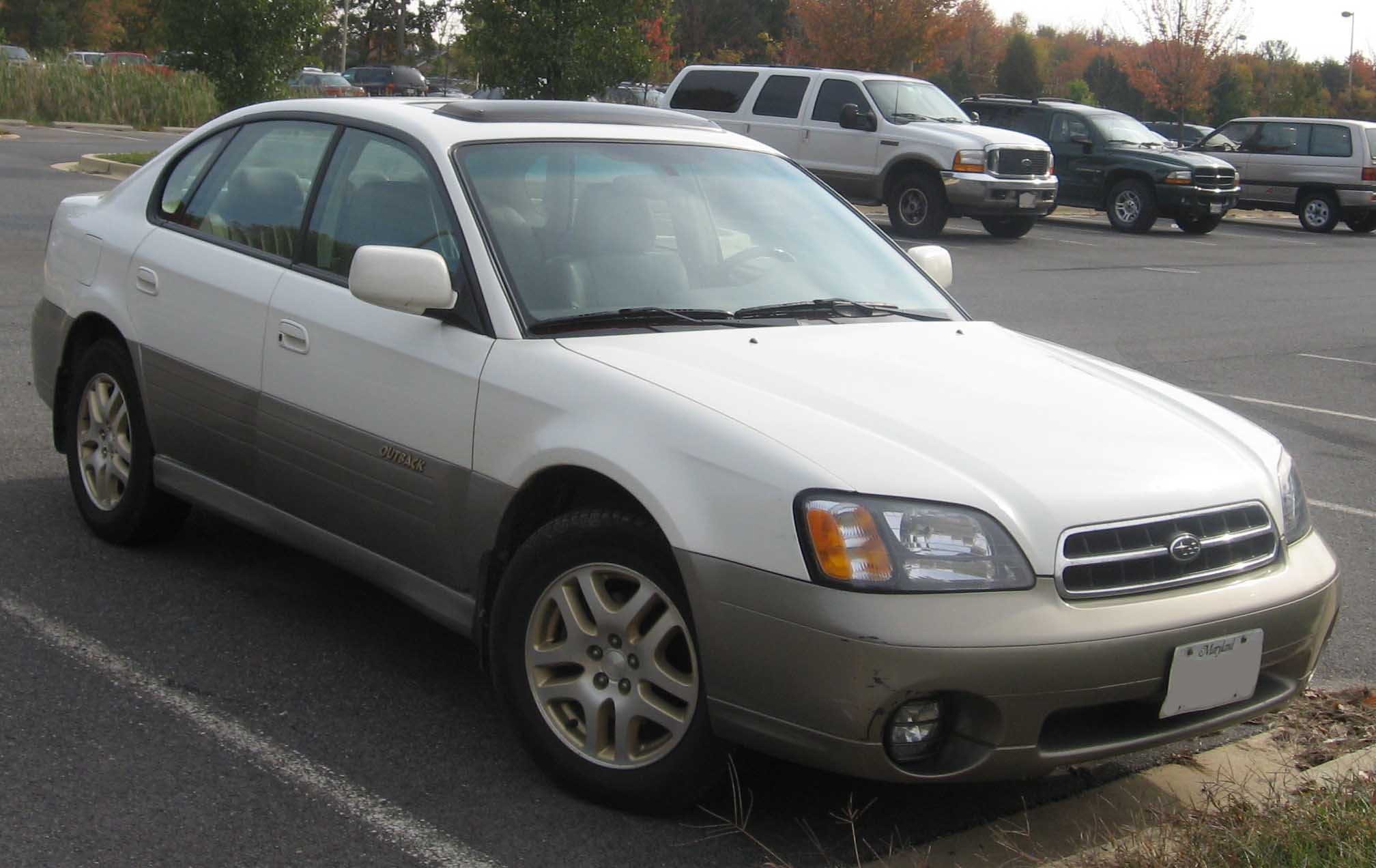 2000-2004 Subaru Outback photographed in Accokeek, Maryland, USA.